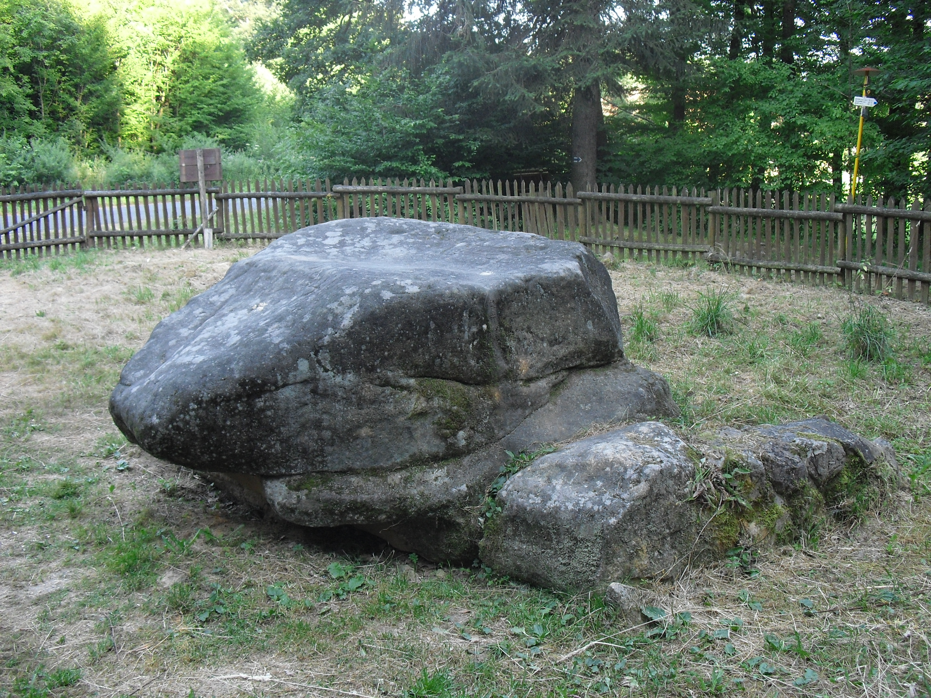 Králův stůl (King's Table), a stone block of sandstone at the road No. 428 about 3.5 km north of the village Modrá (Czech Republic, Uherské Hradiště District). The stone is reputed to be the megalithic dolmen. Mention of it already in the charter of King Ottokar I of 1228.